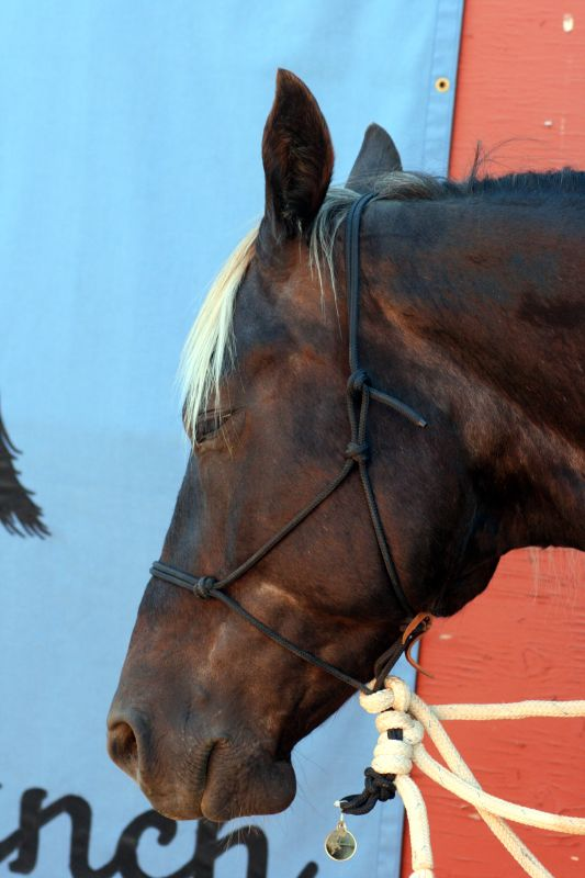 Kentucky Mountain Saddle Horse